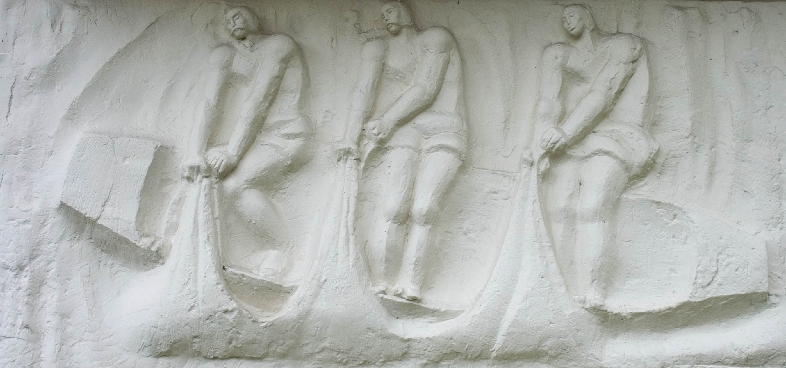 WITNESS HILL, relief (Szolnok) Jubilee Square- Detail: Tisza fishermen Allegory